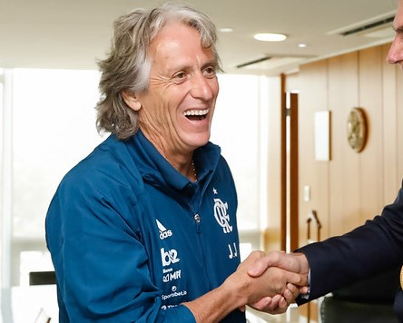 (Brasília - DF, 17/02/2020) Encontro com Técnico do Flamengo, Jorge Jesus. Foto: Marcos Corrêa/PR